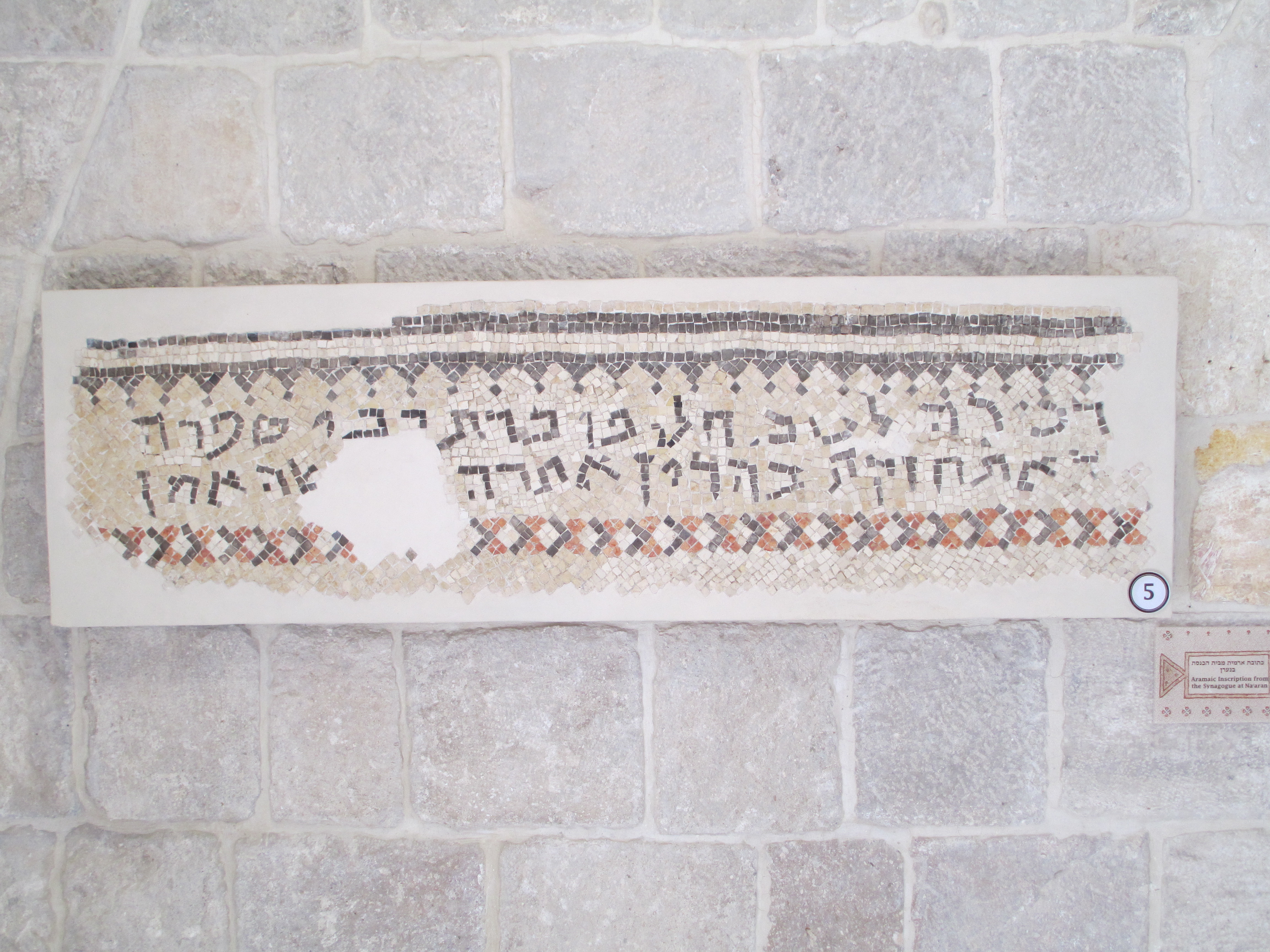 mosaic in old synagogue in na'aran כתובת ברצפת הפסיפס של בית הכנסת העתיק בנערן. נמצא כיום במוזיאון השומרוני הטוב